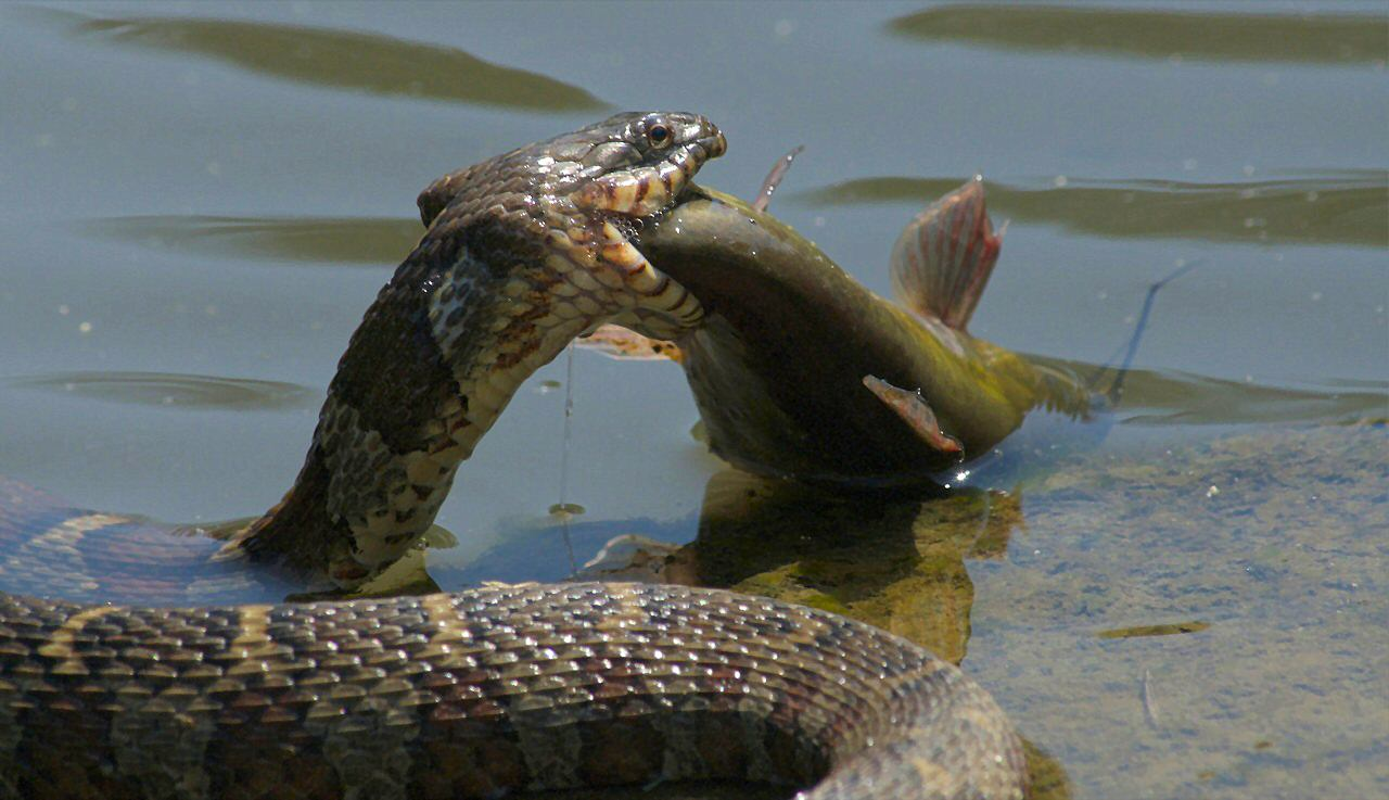 A northern water snake (Nerodia sipedon) caught himself a catfish in a pond at Duke Gardens in Durham, North Carolina. The snake was battling to swallow the fish whole and had quite an audience, including two ducks that were eyeing the fish.